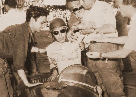 The Messinese Mario Piccolo is extracted from his car exhausted after the arrival of the 1953 10 Hours of Messina. This may be a 750 Danese.[1]